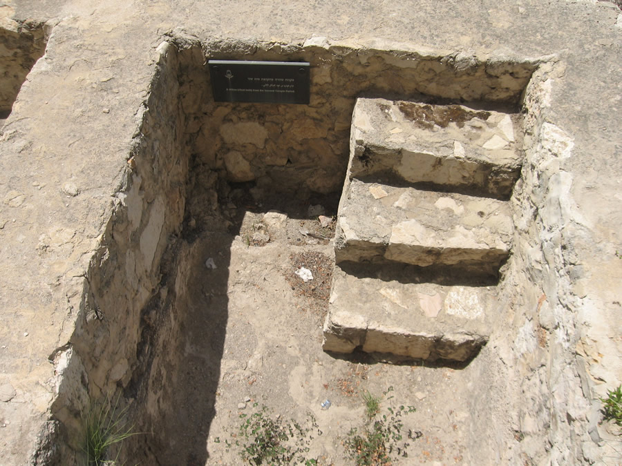 An ancient Israelite immersion pool. Before making a sacrifice, the Israelites must reside seven days on the temple mount. On the third day and on the seventh day they are sprinkled with living water mixed with the ashes of one of the nine Red Heifers. On the seventh day they washed their clothes and would then be immersed. On this evening they were then clean and could approach the north side of the altar to make their sacrifice.